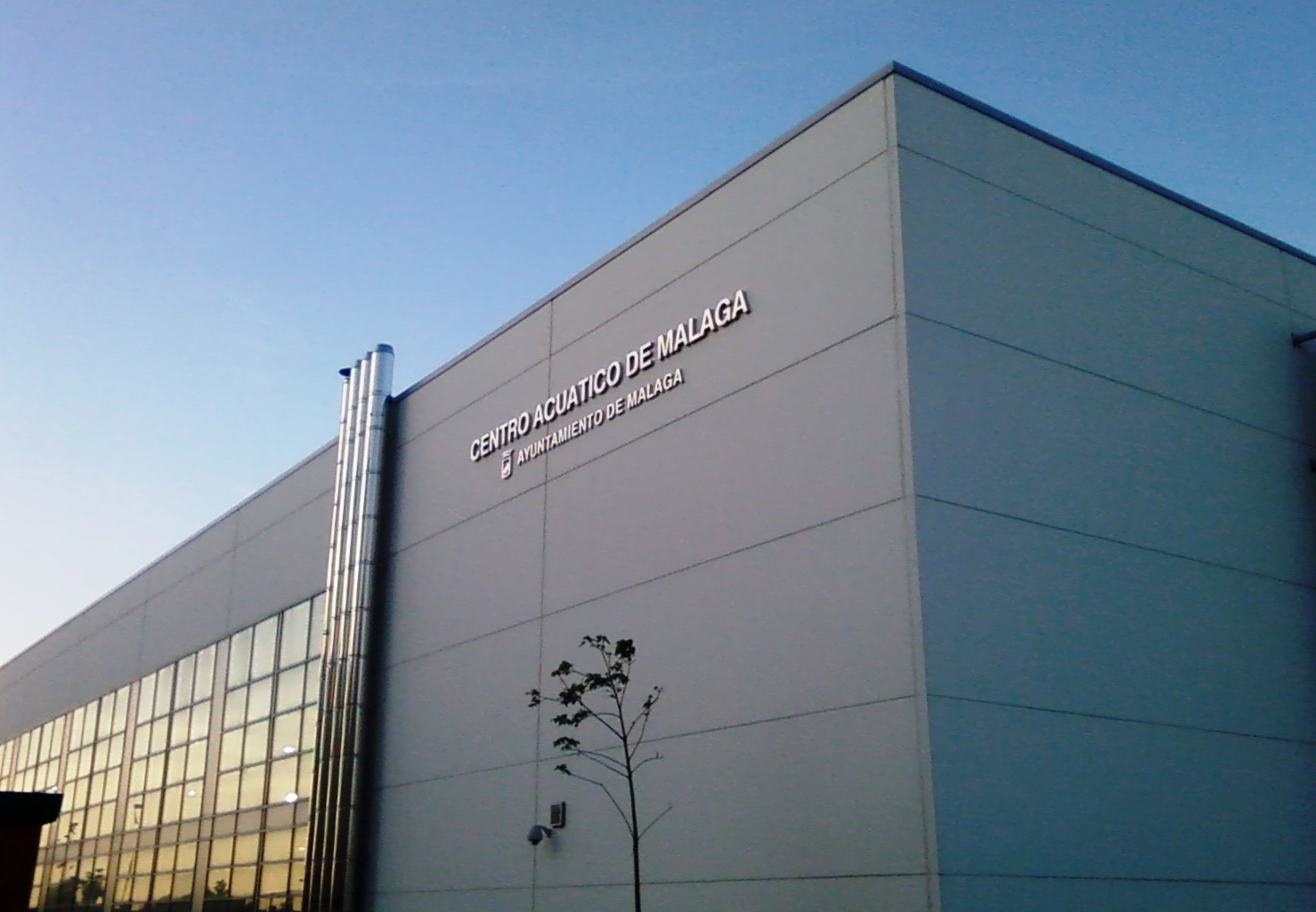 Sport Swimming Pool Centre, Málaga, Spain